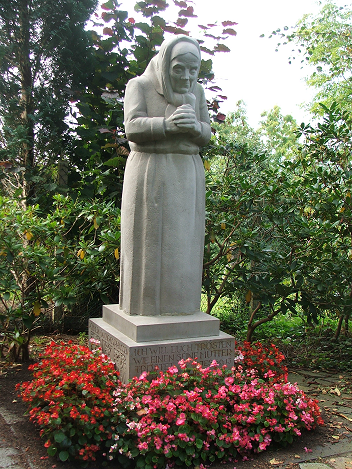 Mother of the East. Refugee memorial in Flintbek Lutheran cemetery.